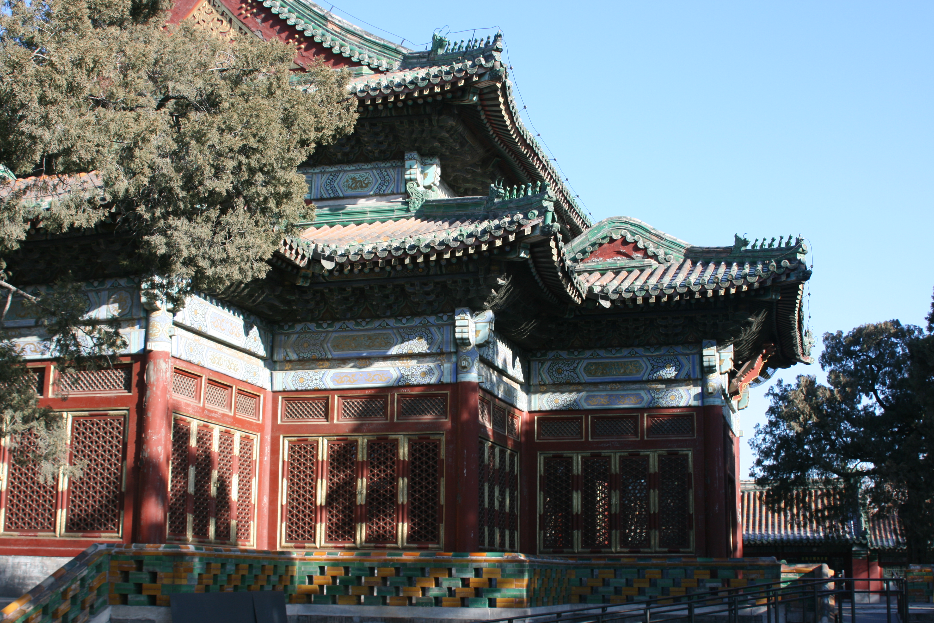 Buildings inside the Beihai Park in Beijing.